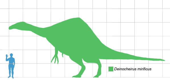 Size of the theropod dinosaur Deinocheirus mirificus compared with a human. Grid segment = 1 square meter. Scaled based on the measurements given in